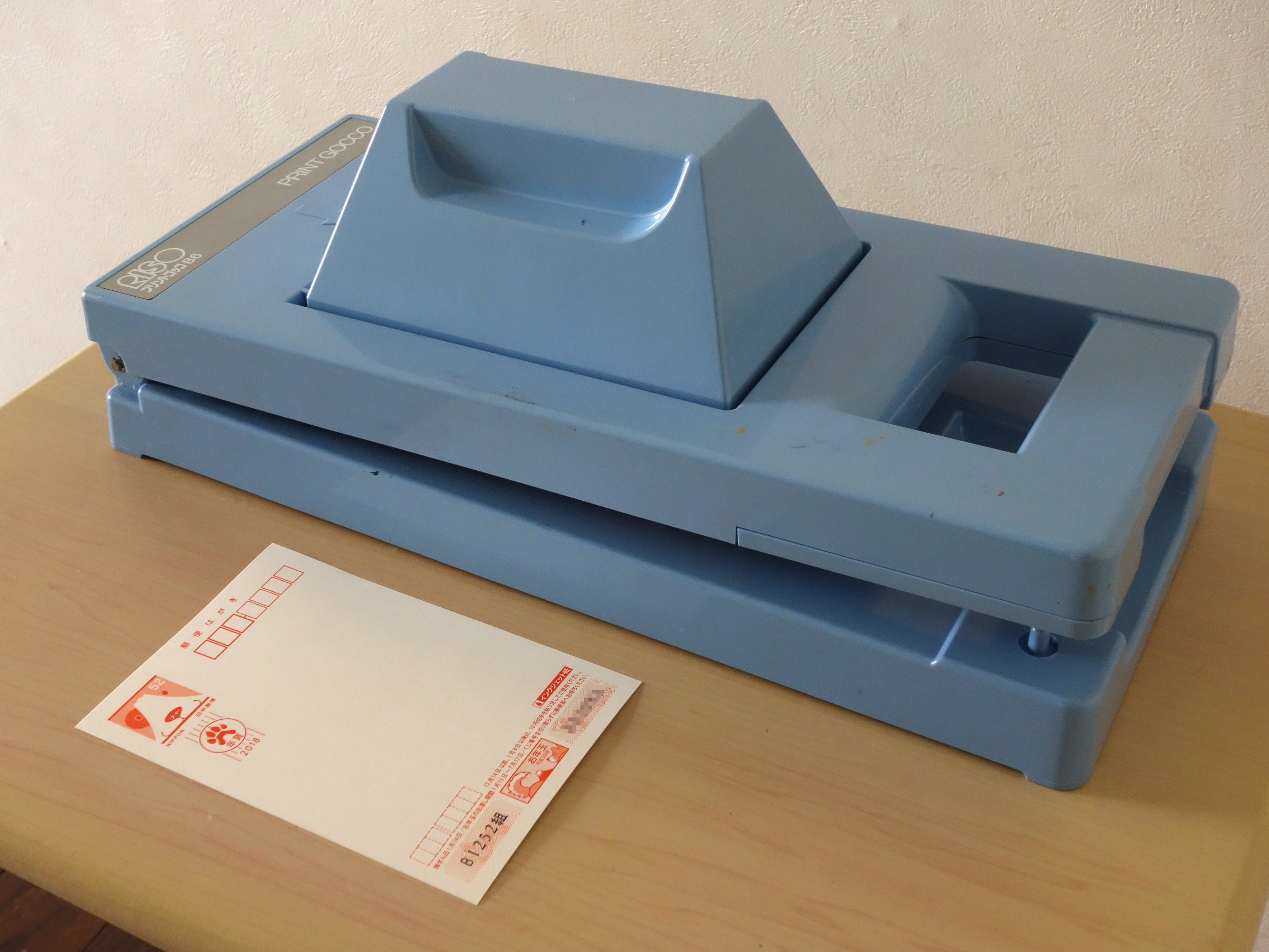 "Print Gocco" (printer for home use) and postcard in Japan (100 x 148 mm).